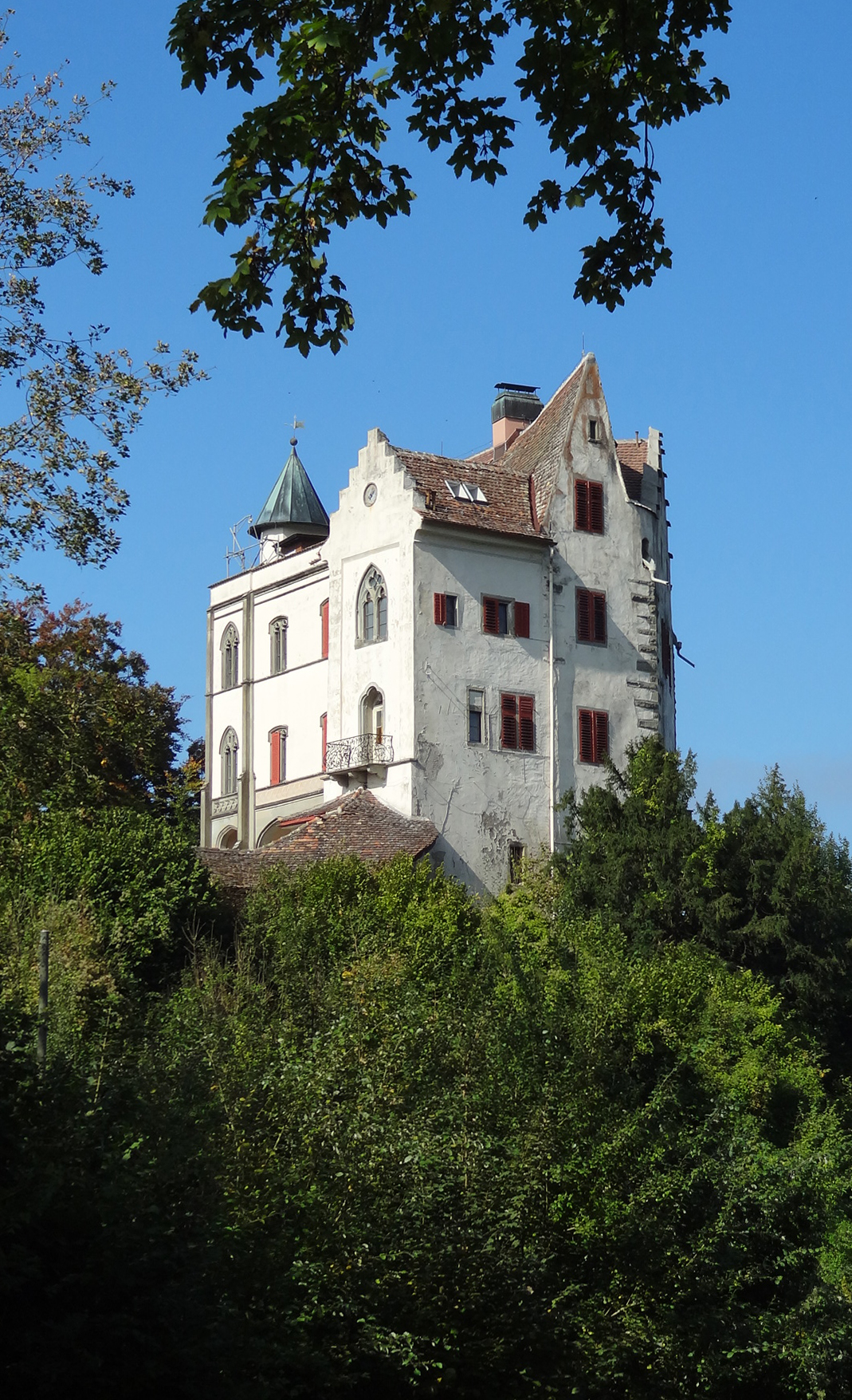 Schloss Salenstein, Switzerland